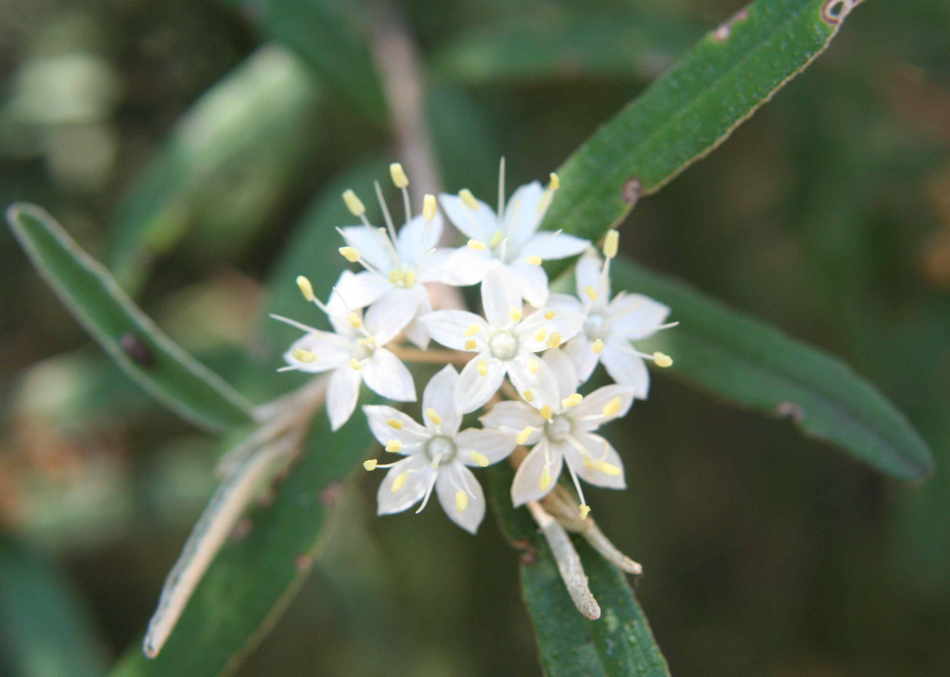 Flower of Phebalium daviesii.